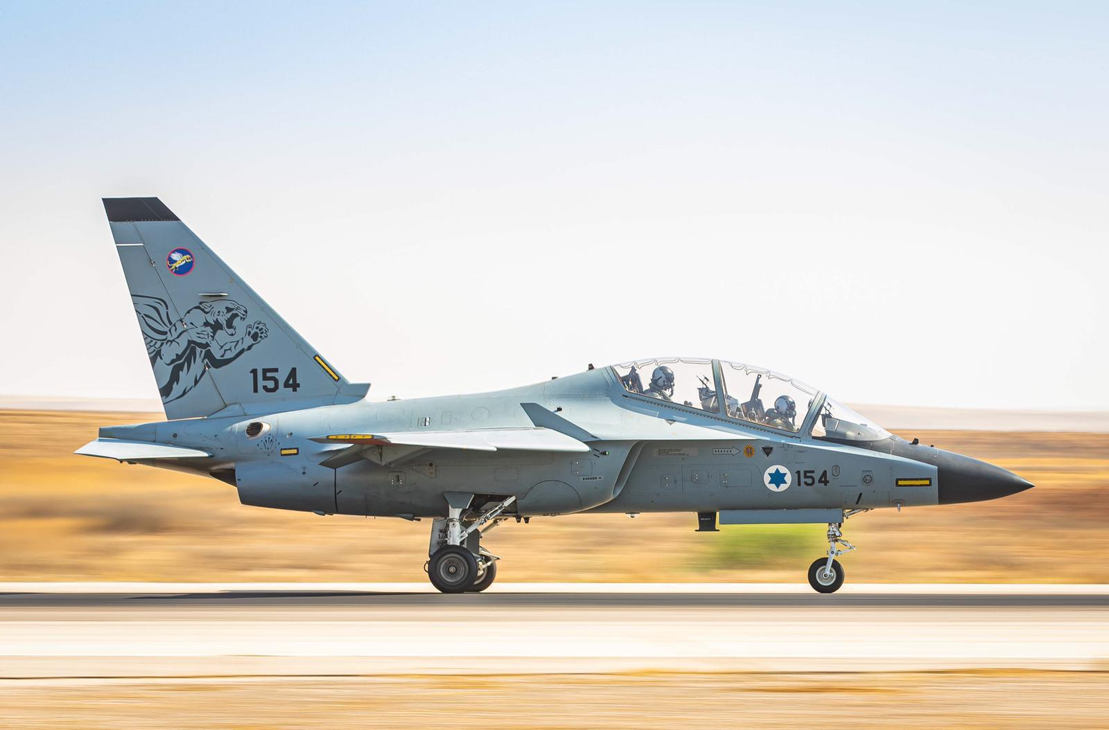 M-346 Master (Lavi) of the 102nd Flying Tiger Squadron at the Hatserim AFB of the Israeli Air Force.